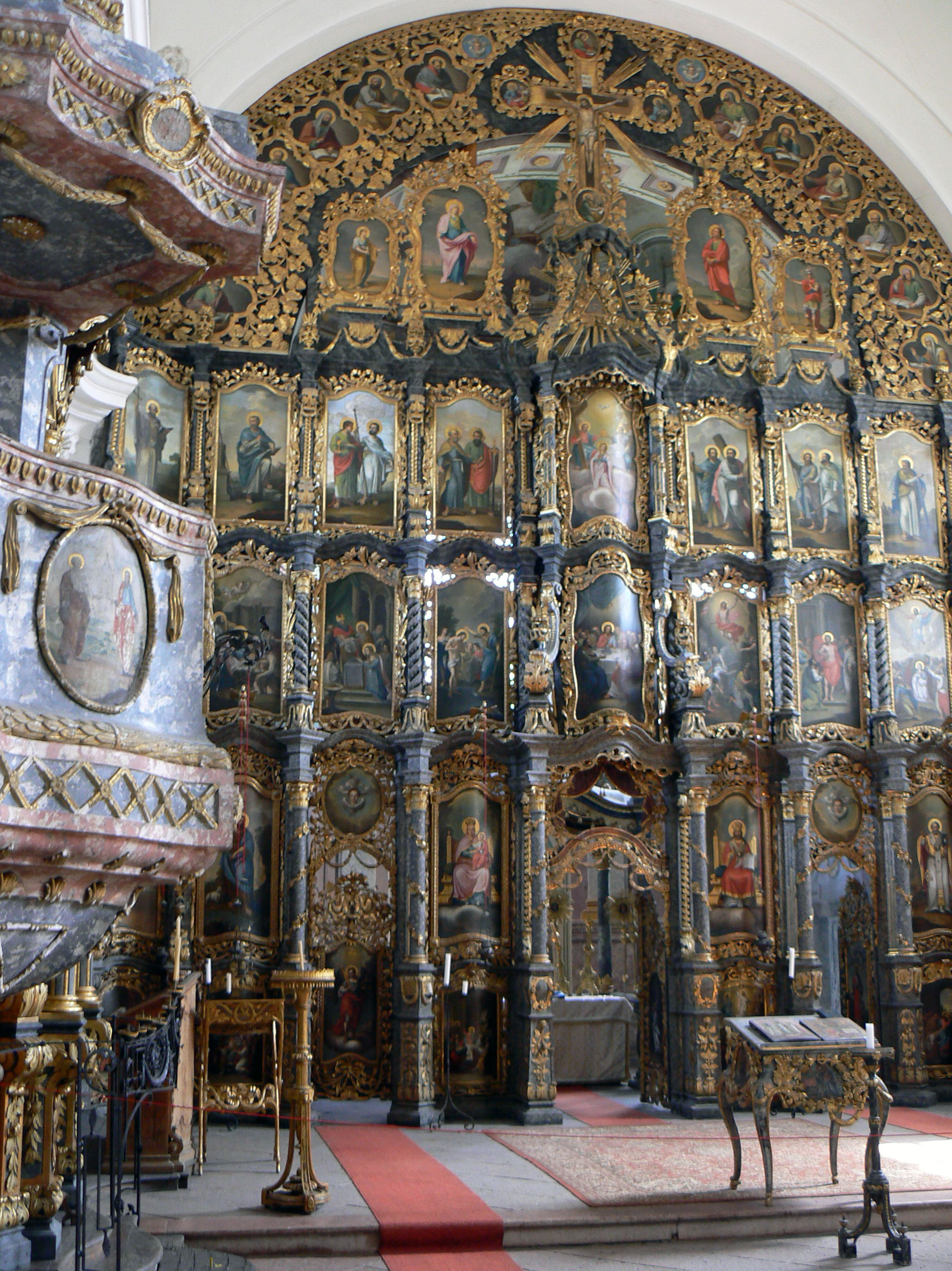 18th century iconostasis in Ráctemplom in Eger.